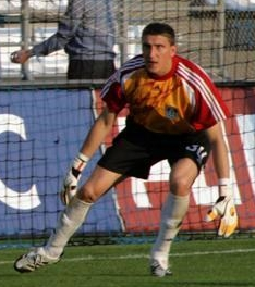 Alexey Stepanov in action for FC Shinnik